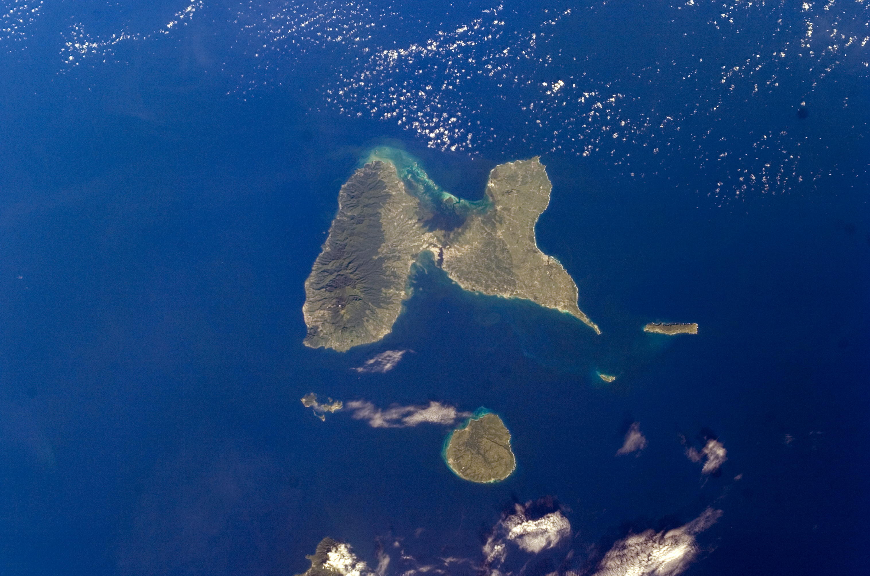 Guadeloupe as seen from the ISS.